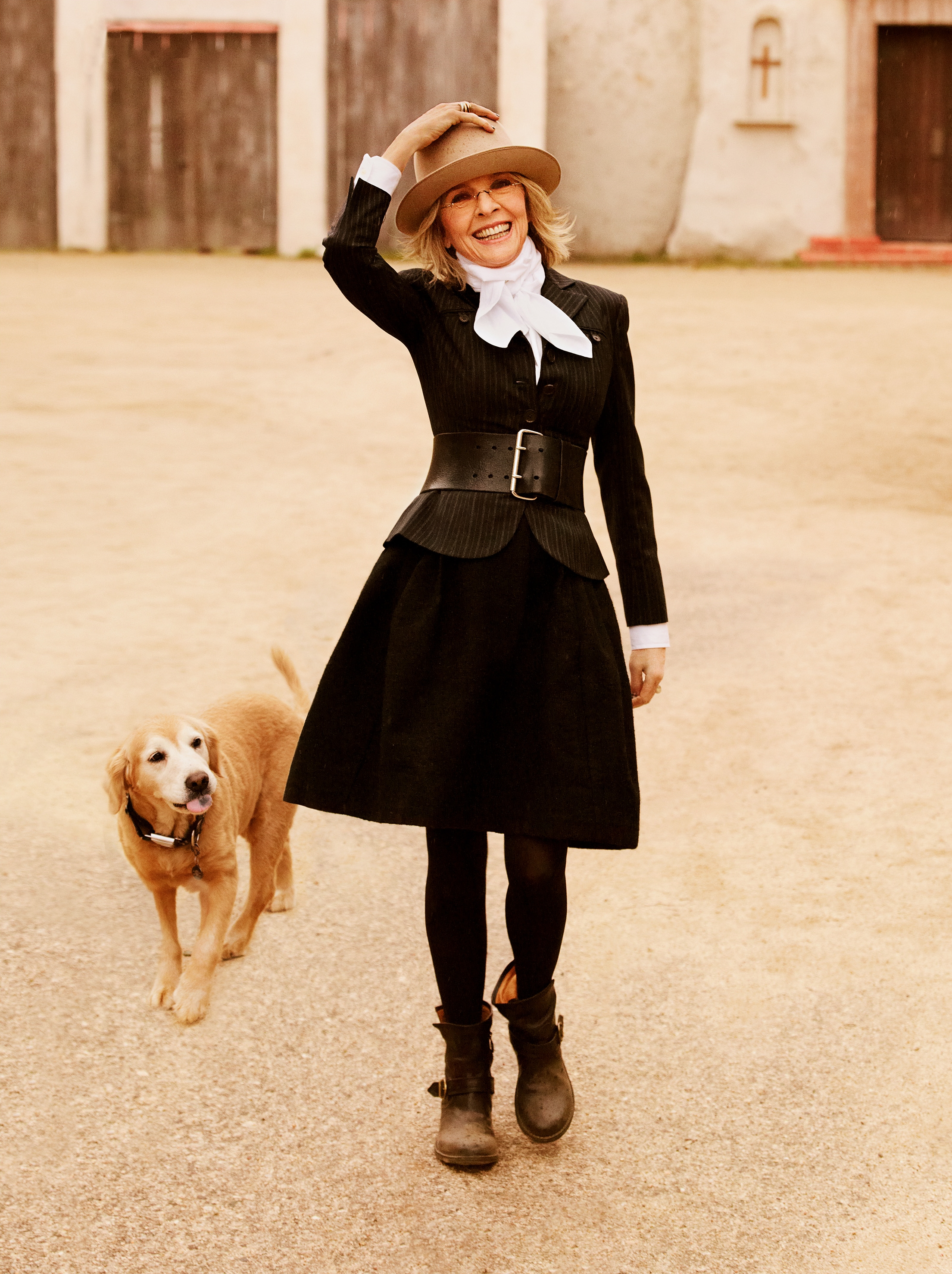 American actress Diane Keaton